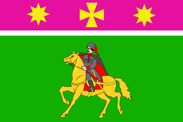 Flag of Poltavskoe rural settlement, Krasnodar Territory, Russia